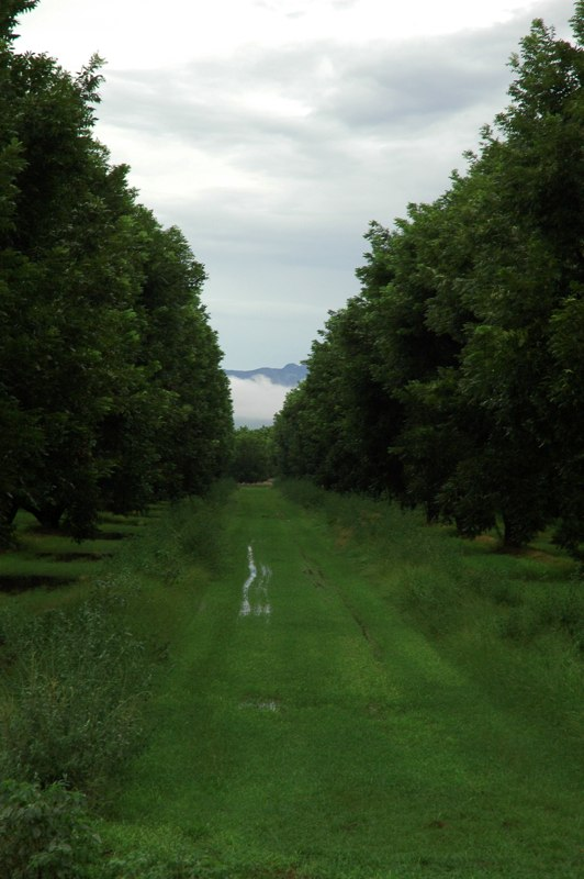 FICO pecan groves in Sahuarita, AZ, with the Santa Rita Mountains hiding behind low clouds in the background. Taken during the August monsoons in 2007 near Sahuarita Road and the Santa Cruz River.